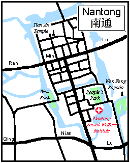 Created by Mark Tooker.